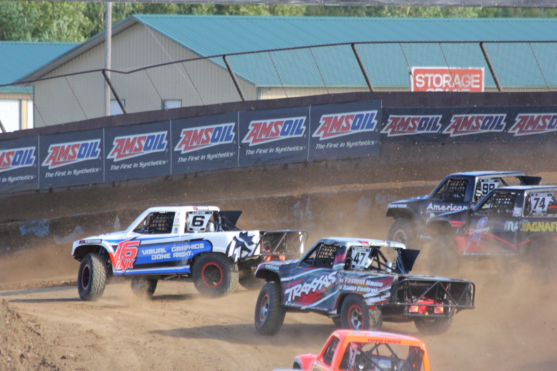 The Stadium Super Trucks racing into the first turn at Crandon International Off-Road Raceway.